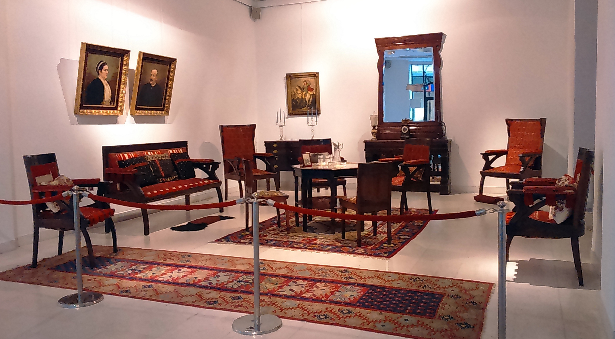 Furniture from the house of Jovan Cvijić